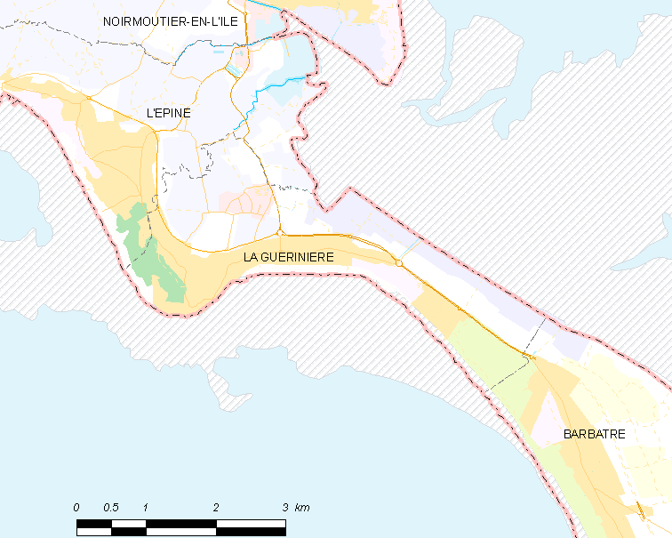 Map of French municipality La Guérinière